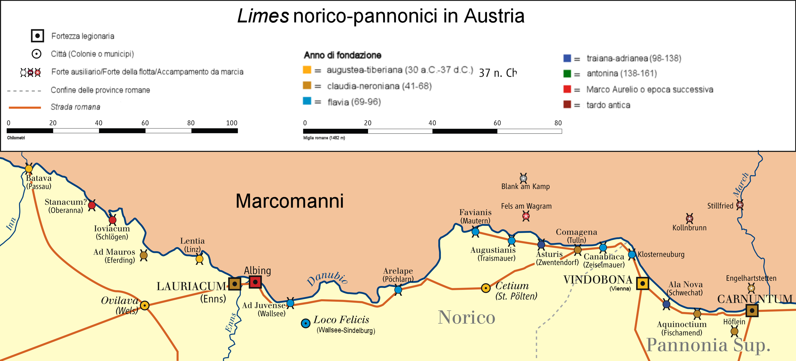 Italian version of File:Limes3.png